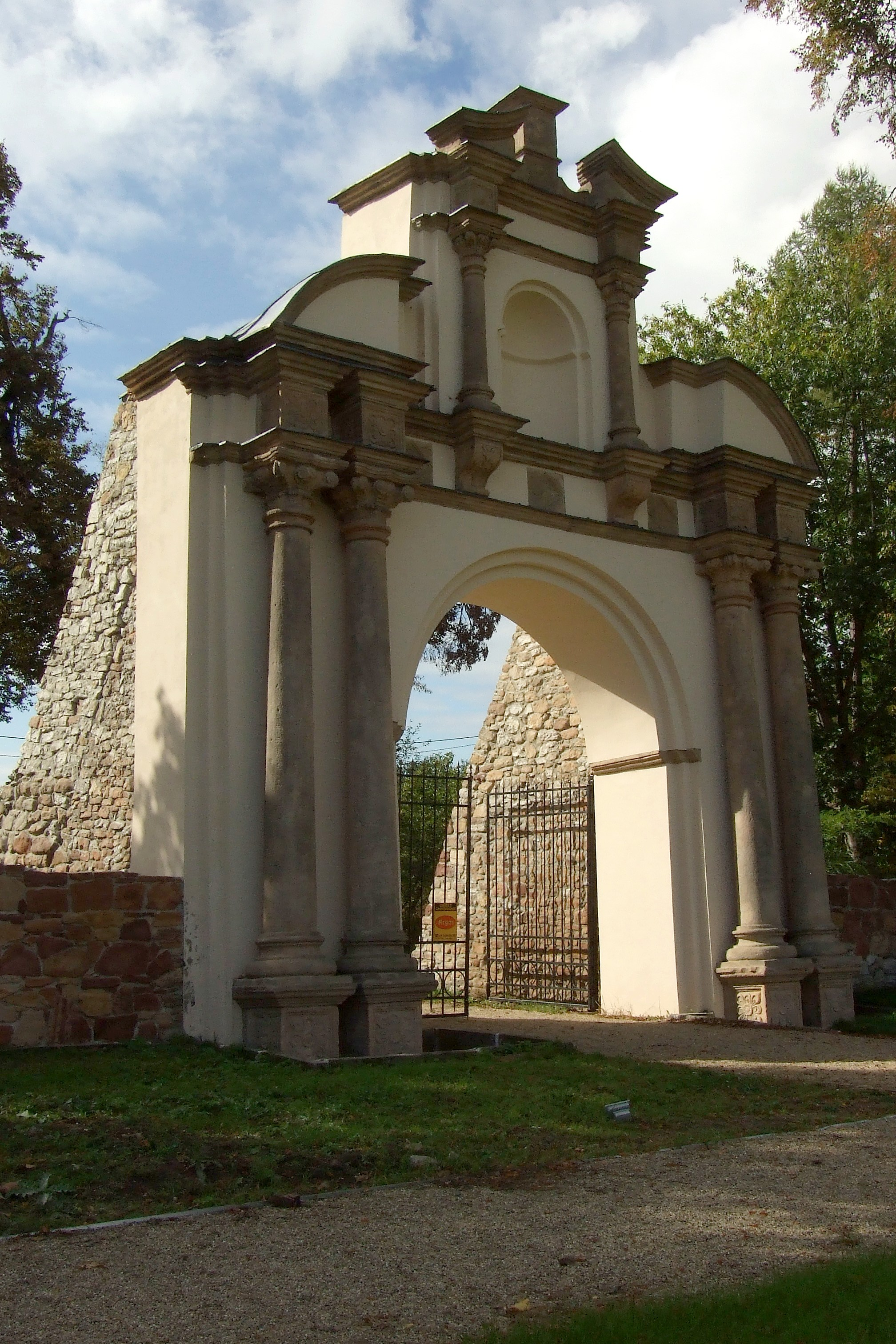 Triumphal arch in Podzamcze Chęcińskie